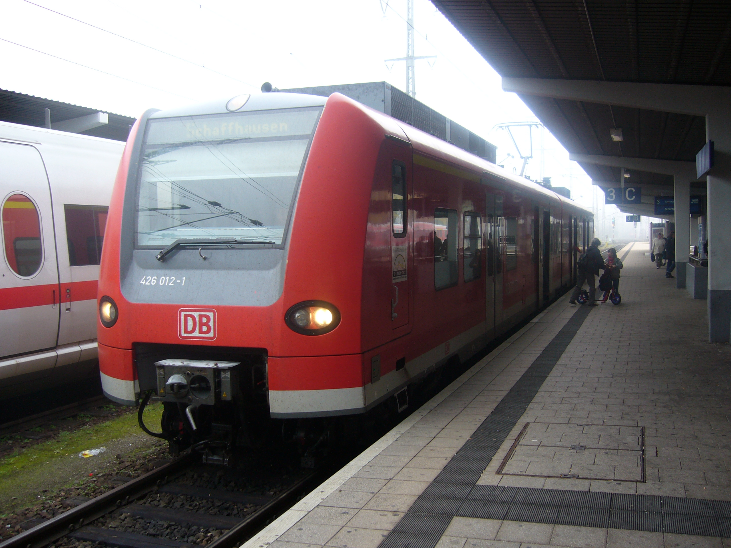 regional train in Singen, Germany